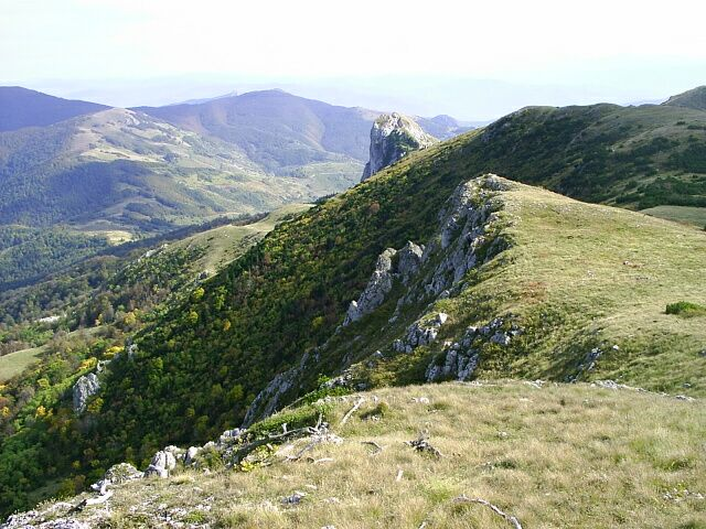 Jahorina (northern part) mountain range in Bosnia-Herzegovina